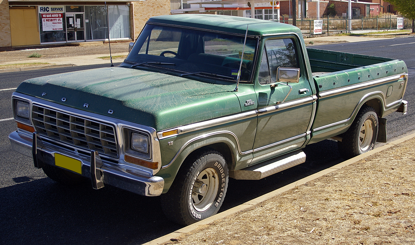 1979 Ford F150 Custom XLT V8 photographed in Australia.